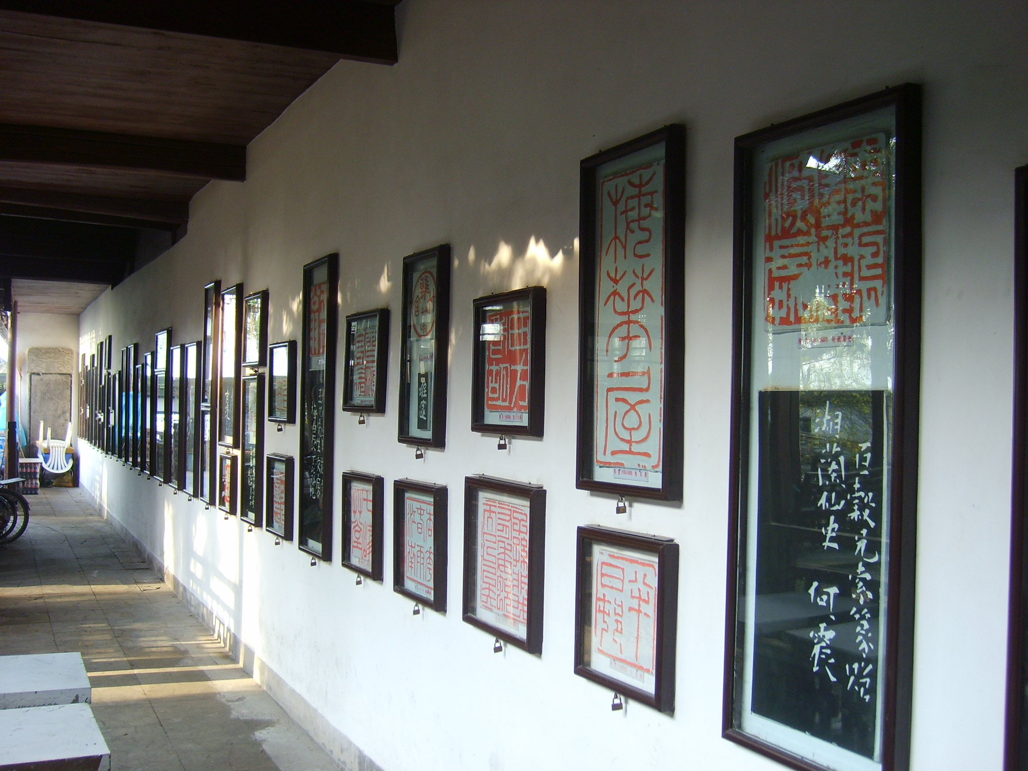 Seal Gallery of XiLing